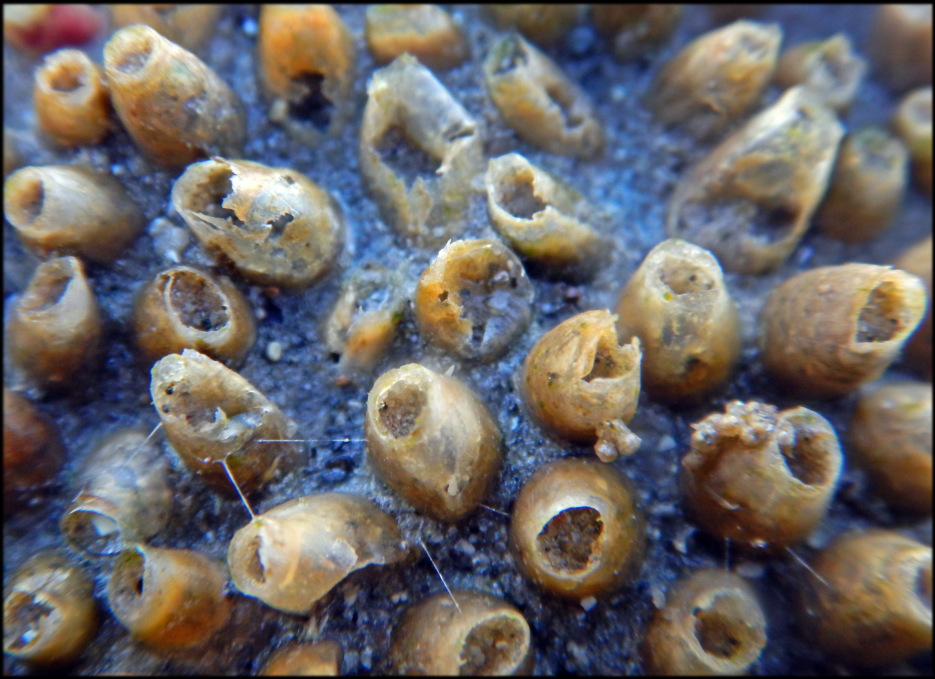 Ovigerous capsules (each containied several eggs) of gastropods Nucella lapillus, photographed at low tide on the foreshore in Wimereux (northern France) mid 2016